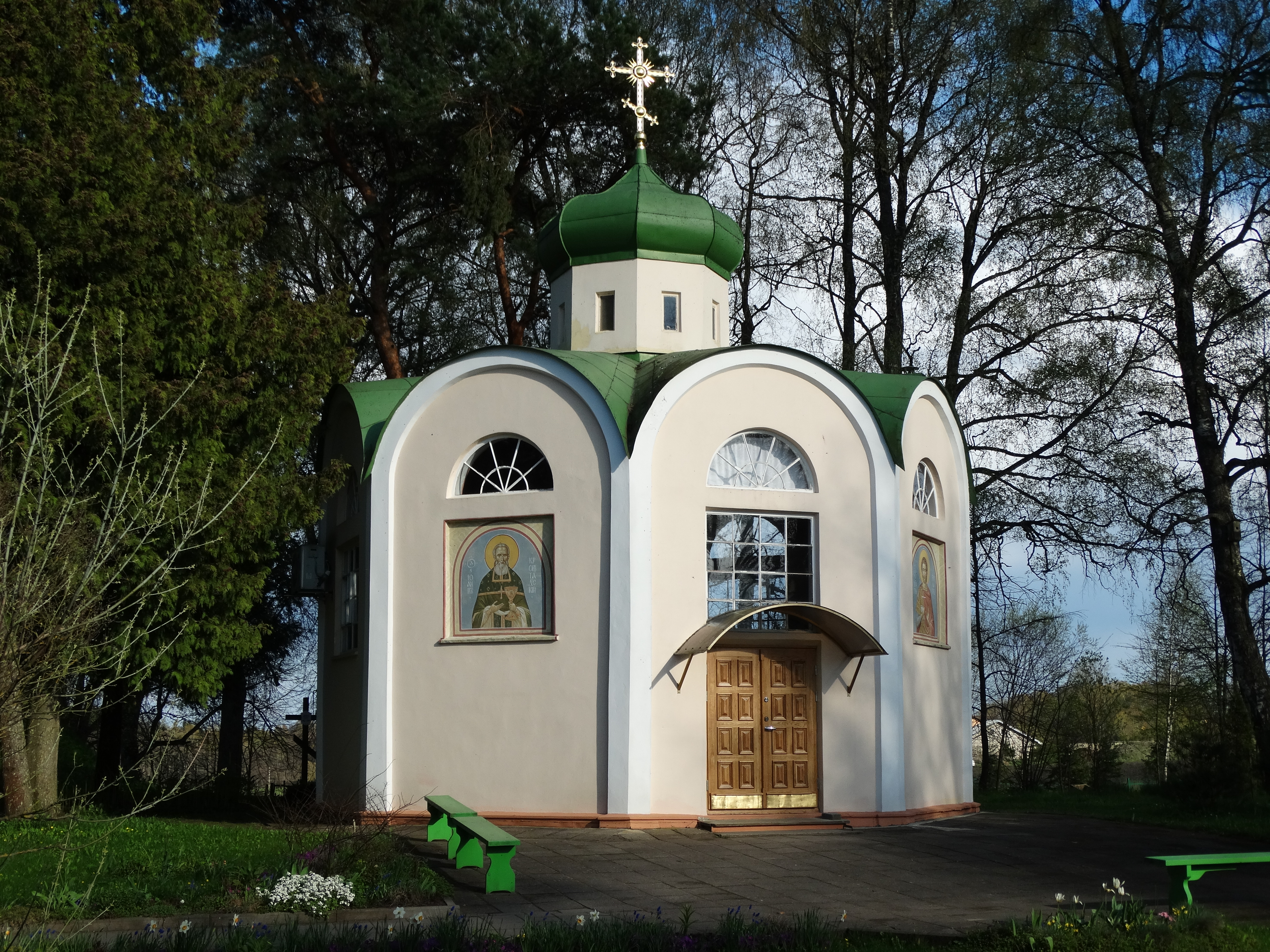 Chapel of St. John of Kronstadt, Mikniškės Šalčininkai District, Lithuania